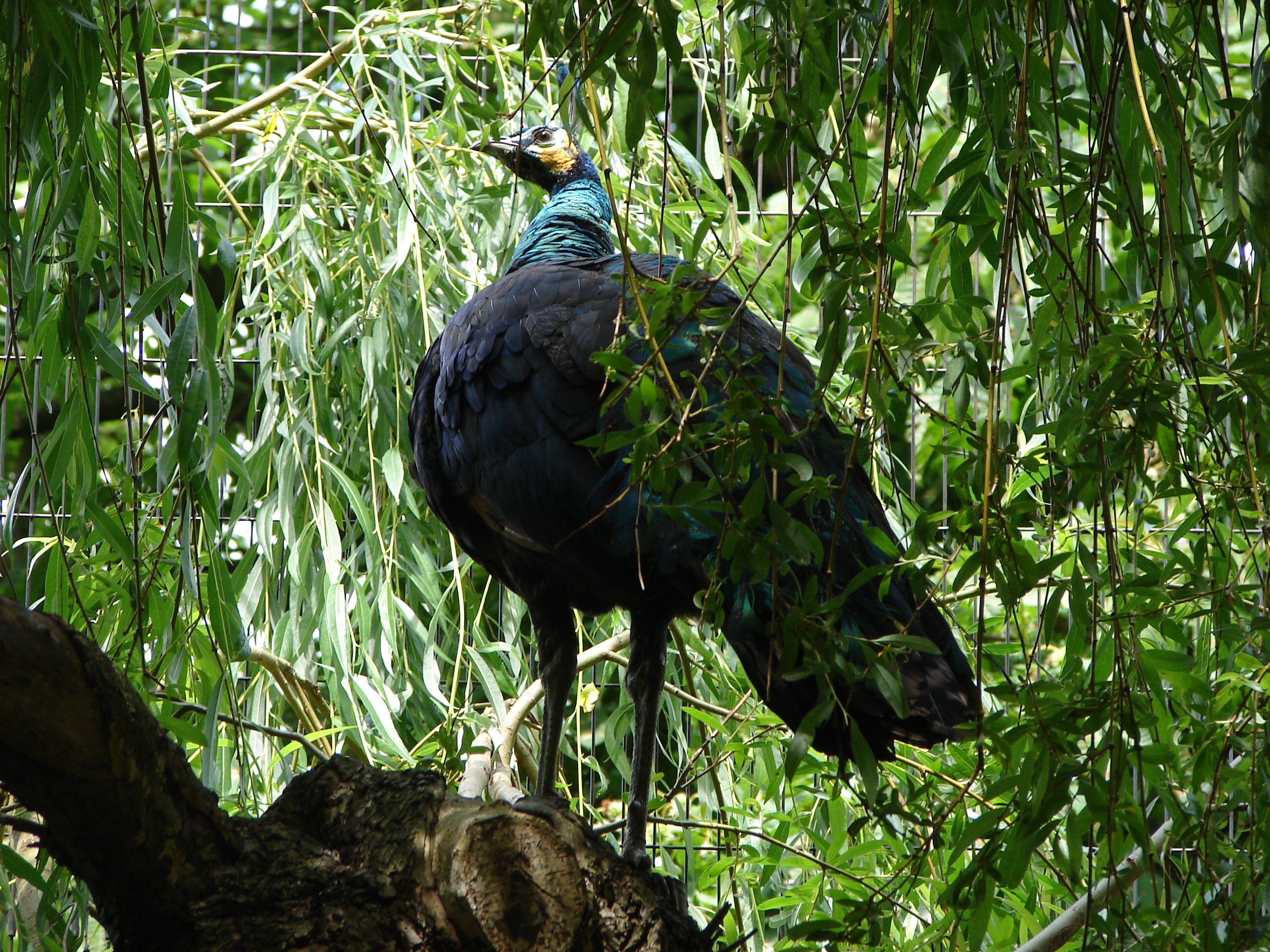 Images from London Zoo. Location: NW1 4RY